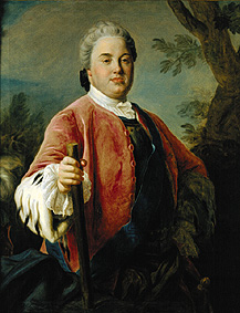 Portrait of Friedrich Christian of Saxony (1722-1763)